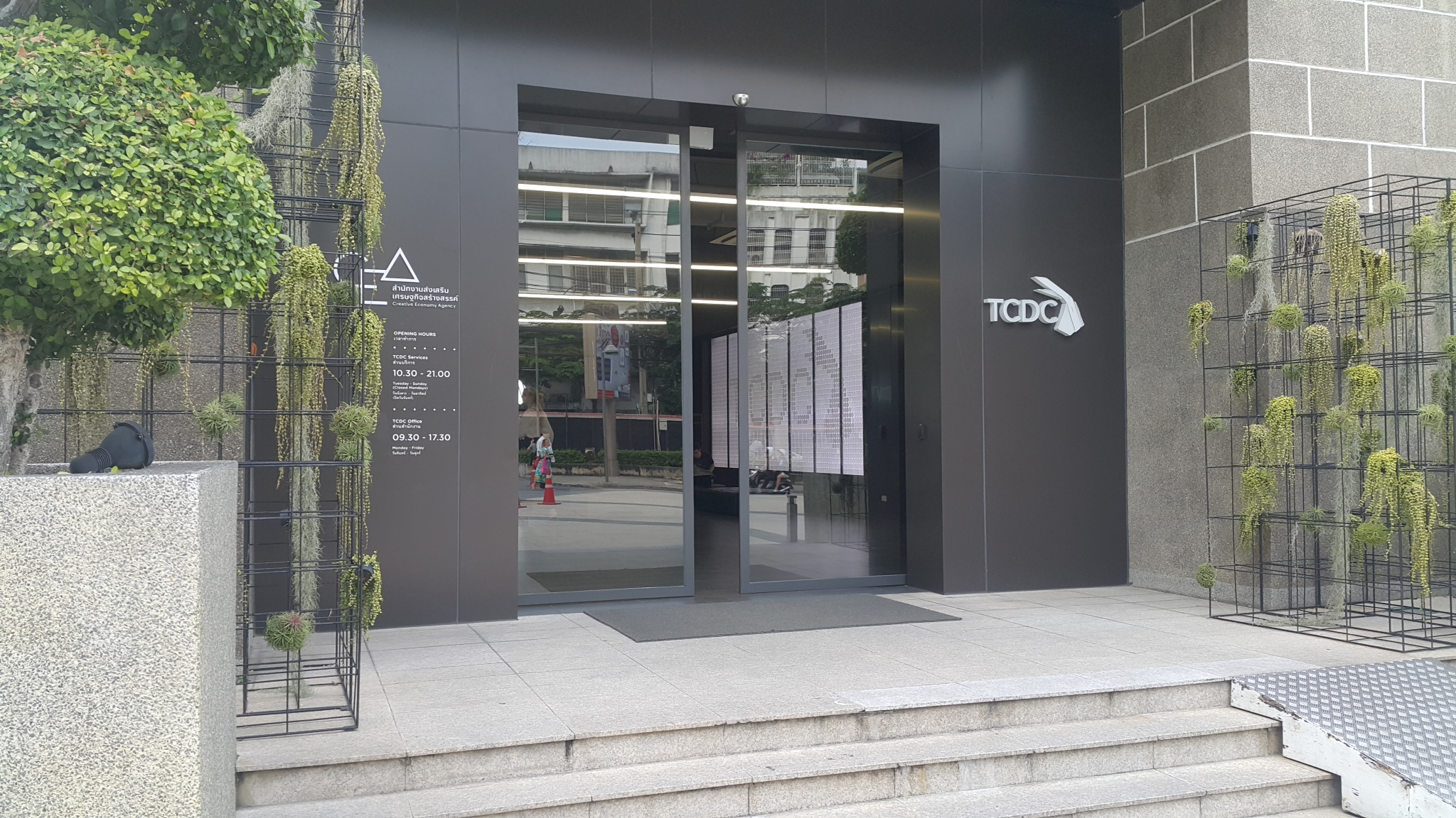 Thailand Creative and Design Center (TCDC) Bangkok at the General Post Office Building